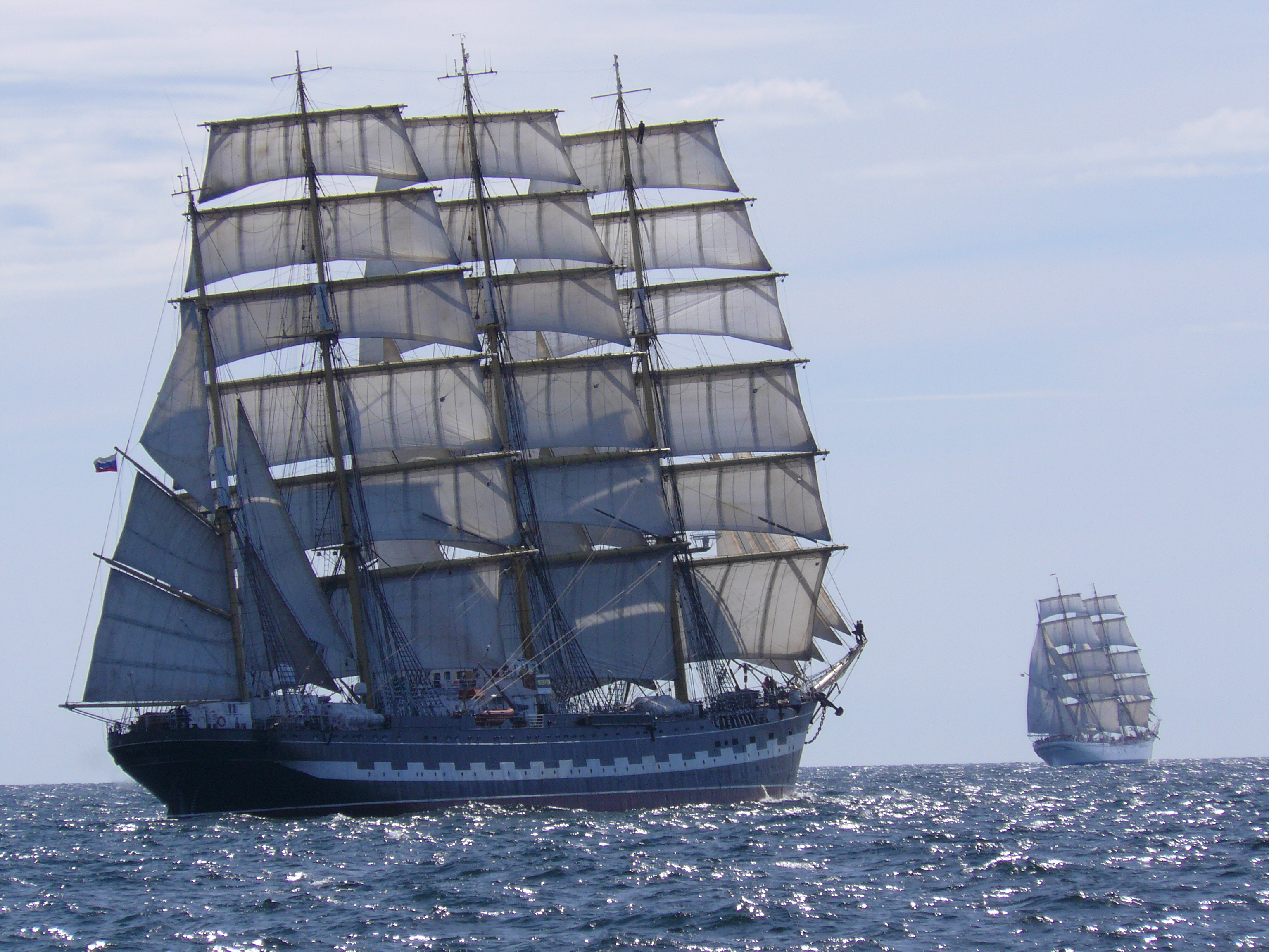 «Крузенштерн» (Kruzenshtern), ex Padua (The bark in the background is Statsraad Lehmkuhl. Note: despite "Radich" appearing in the filename, please be aware that the bark in the background is NOT the Christian Radich of Norway. This is obvious, as the Christian Radich is rigged as a full-rigged ship (not a bark, as seen here).